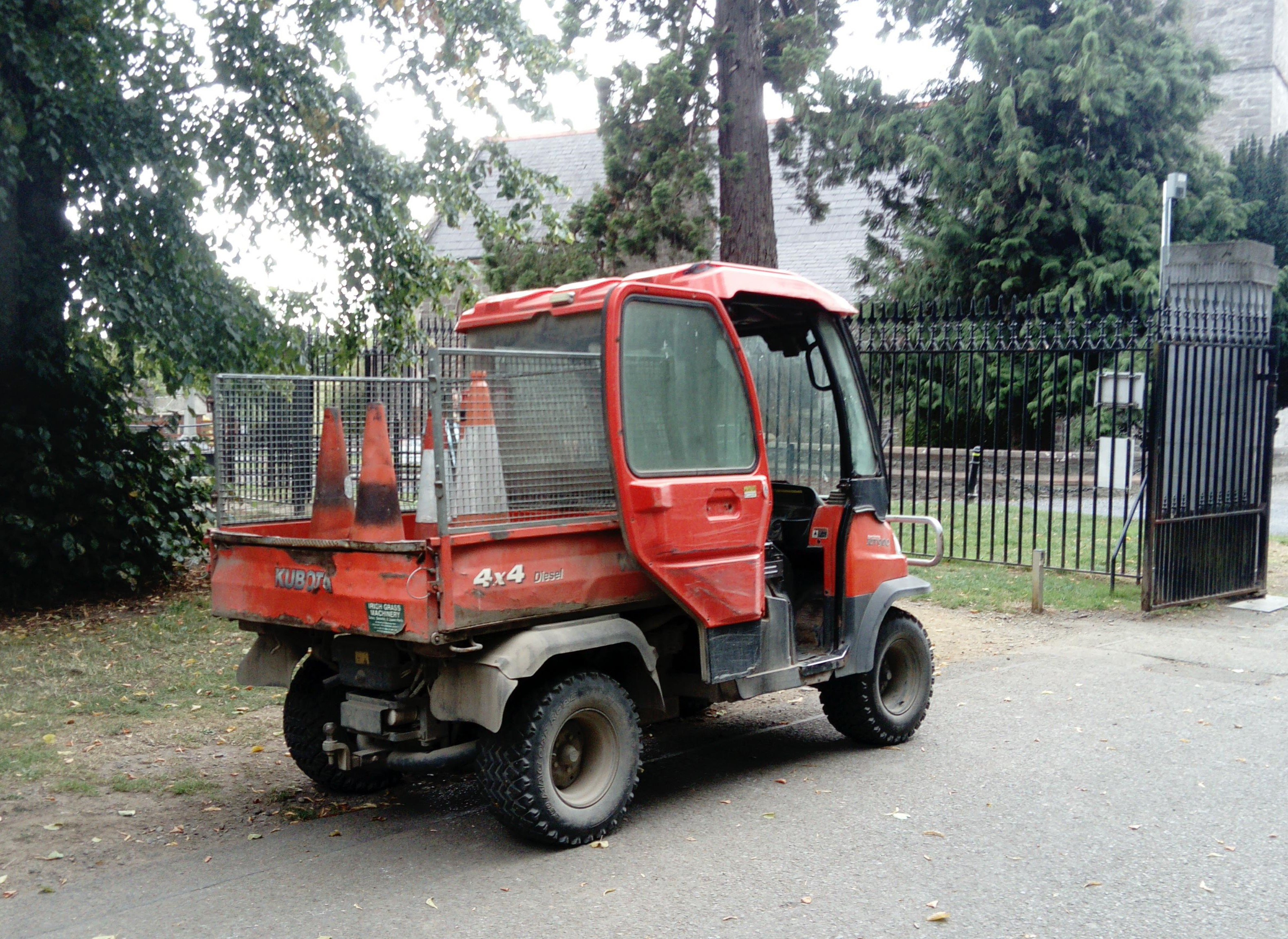 A Kubota 4*4